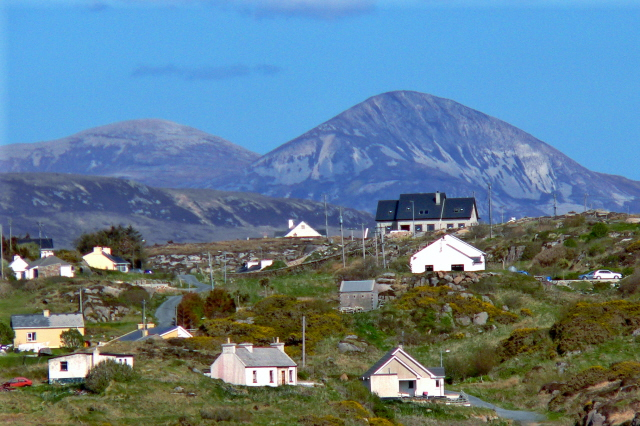 Rinnafarset area - Homes This view is from the Donegal Carrickfin Airport looking east across a small bay along the east coast of the peninsula that the airport is located on. This photo was taken with the zoom lens at 432mm. The camera was hand held, but it has a good image stabilizer.